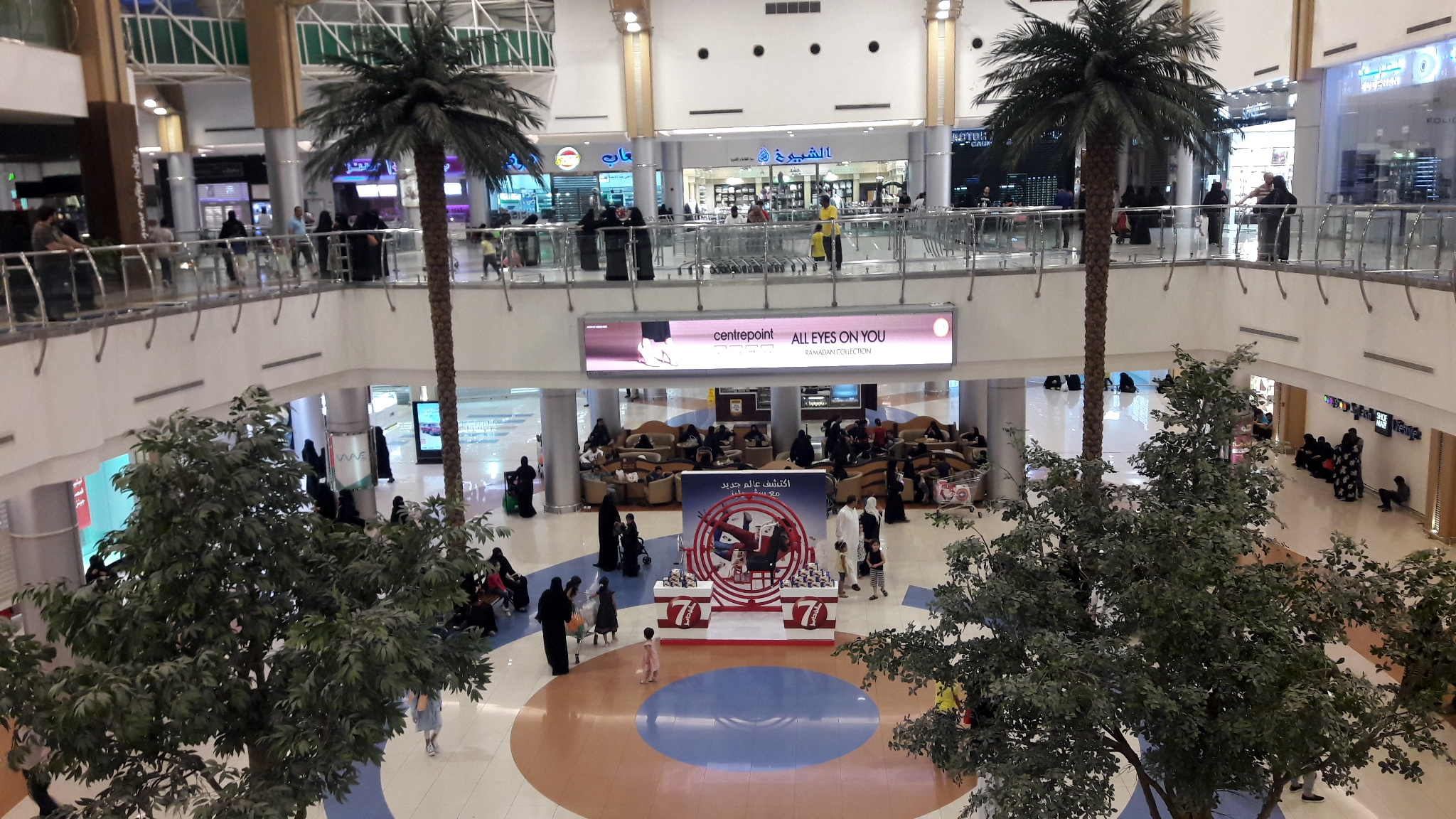 Al Andalus Mall, Jeddah